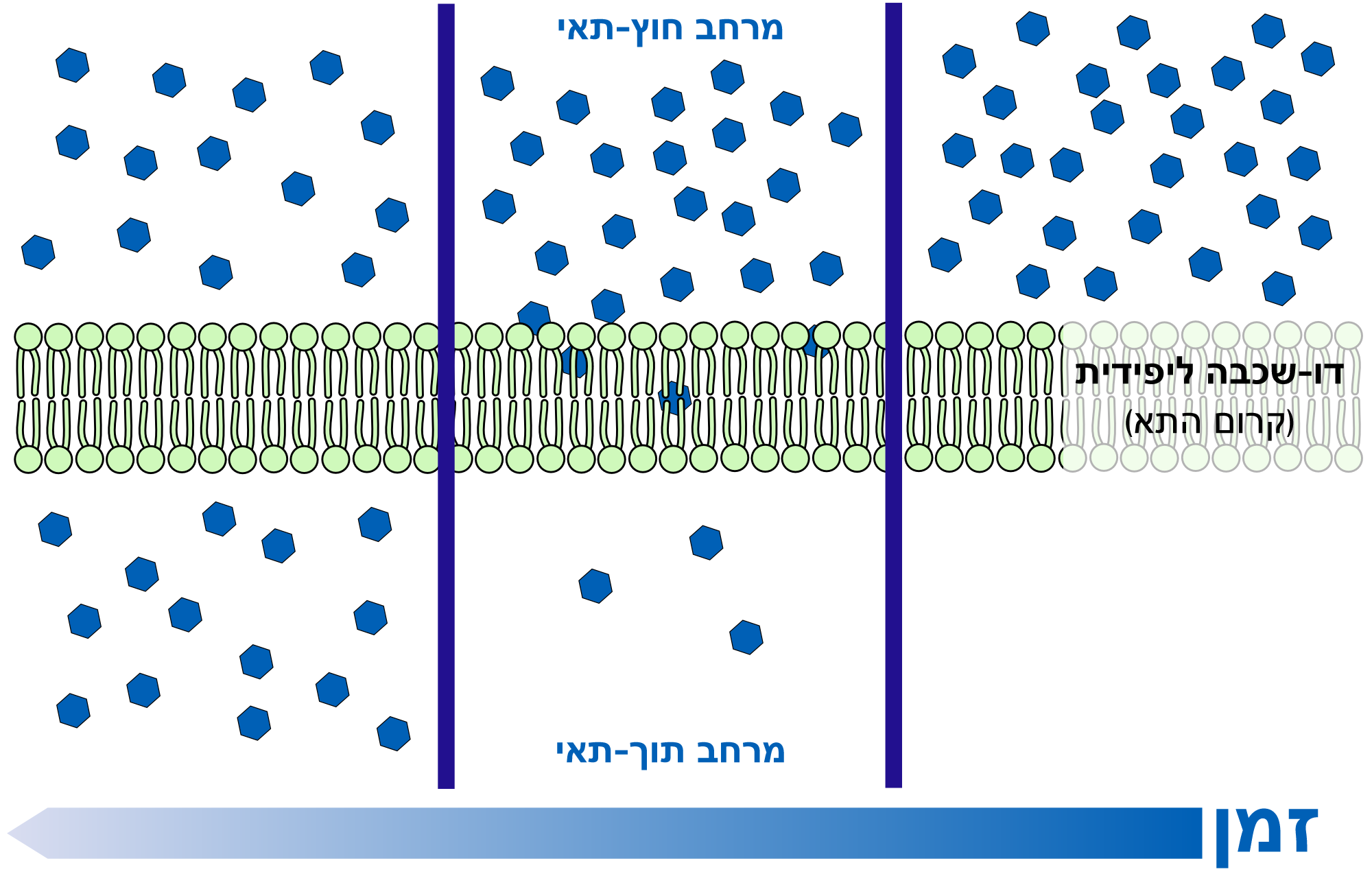 Simple diffusion, the movement of particles from an area where their concentration is high to an area that has low concentration. one of the diferent ways in wich molecules move in cells.